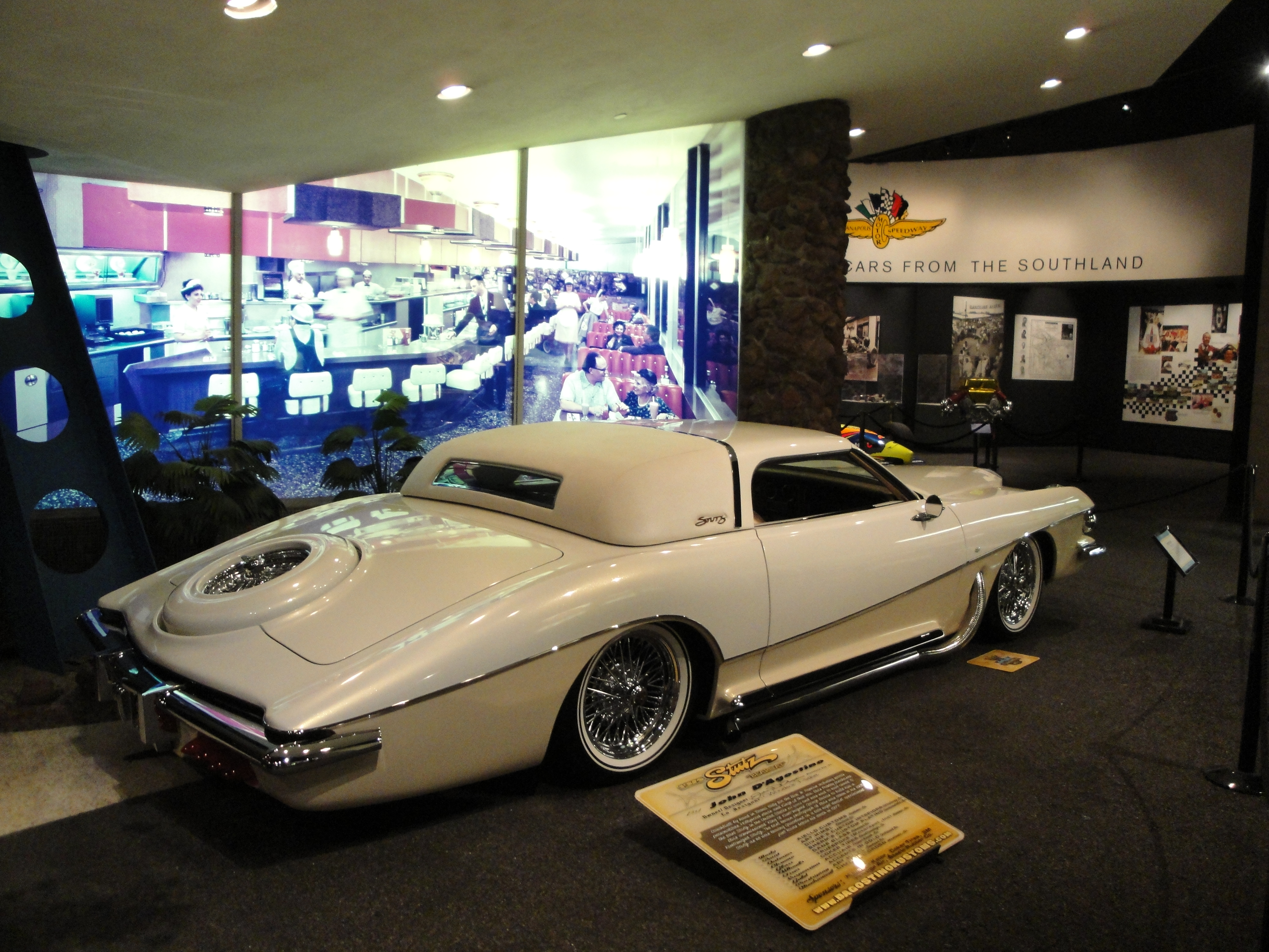 Stutz Bearcat (1975), a Blackhawk Series III customized by John D'Agostino